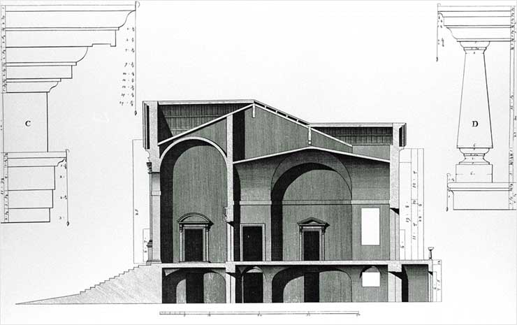 Villa Gazzotti in Bertesina (Vicenza), designed by Andrea Palladio. Drawing from Ottavio Bertotti Scamozzi, 1778.